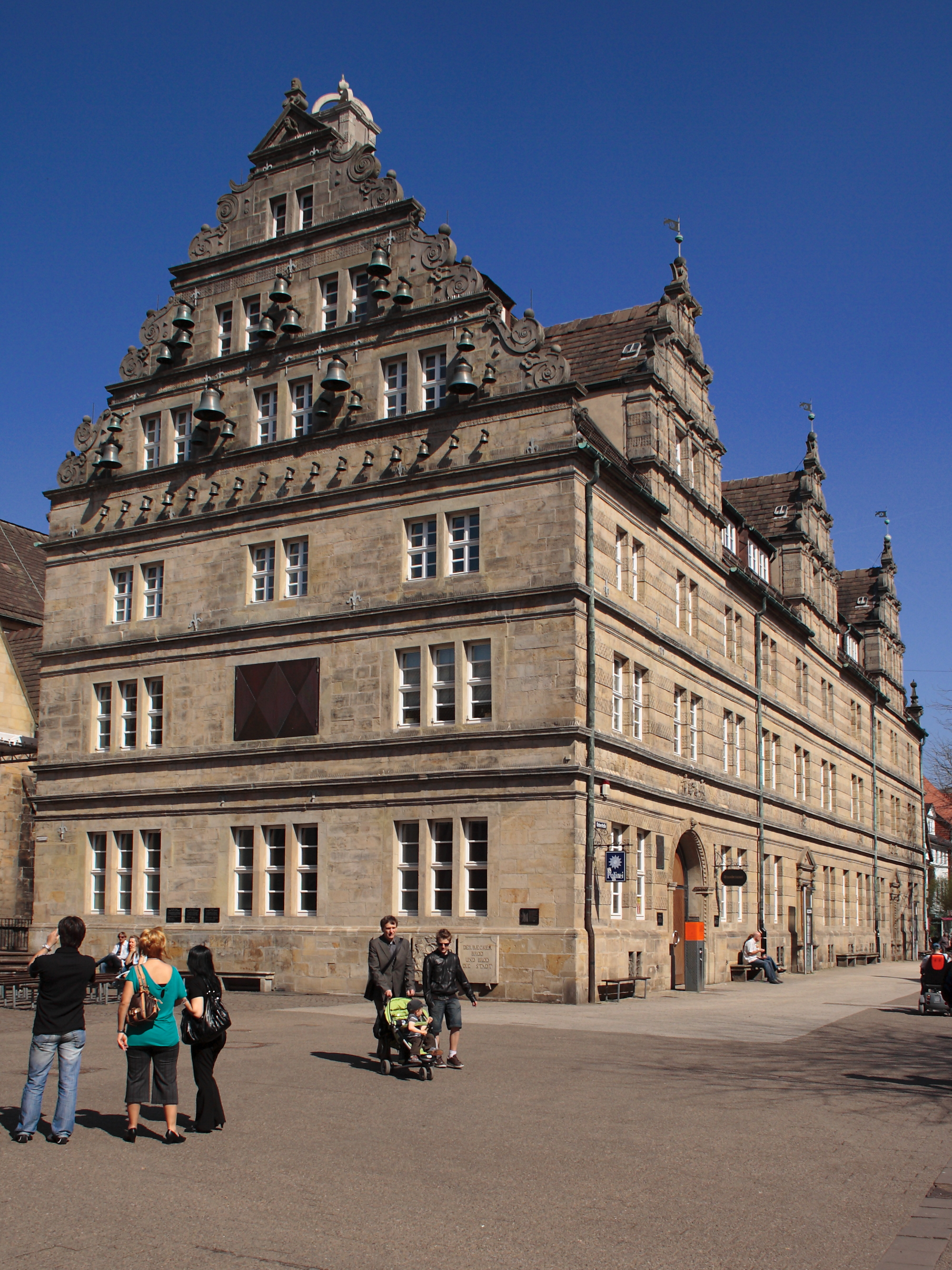 This image shows an ancient building called "Hochzeitshaus" in Hameln, Germany.